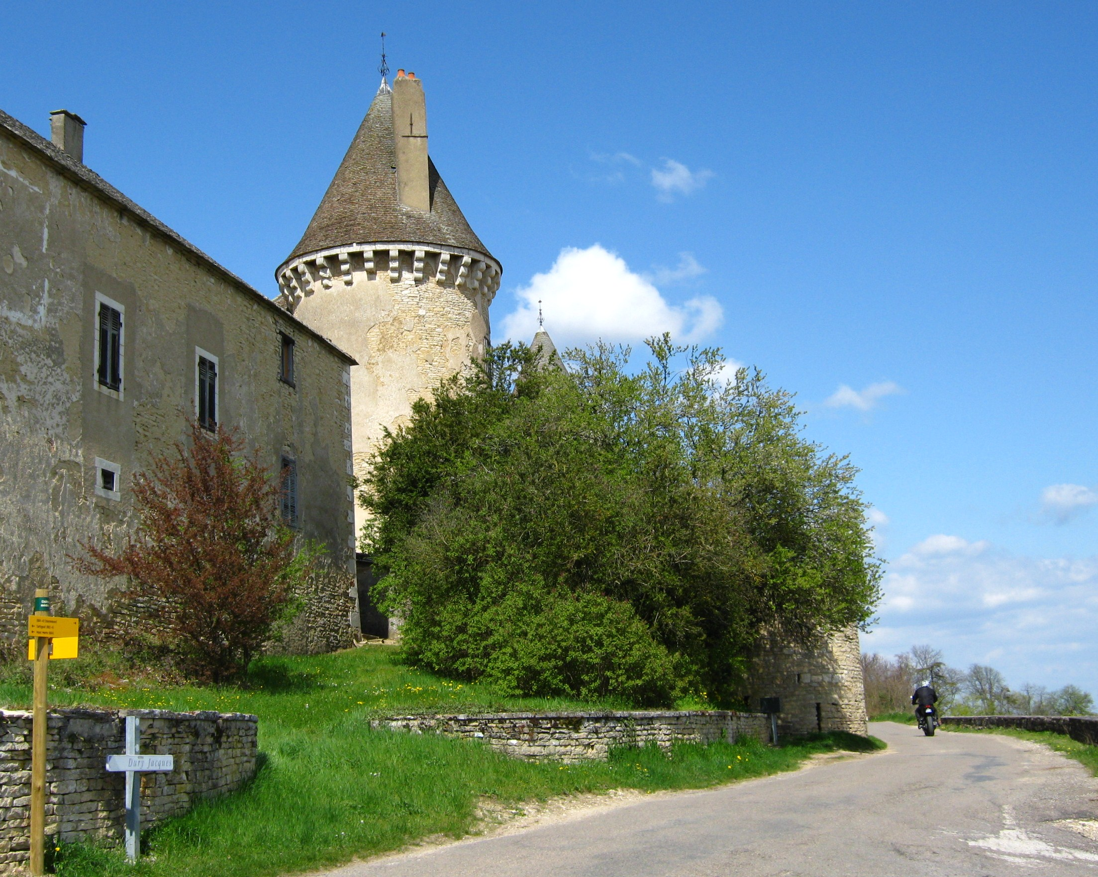 Description Chateau de Rully Taken 11 April 2010 Author Chris Emms Source Own work. (Picture cropped)